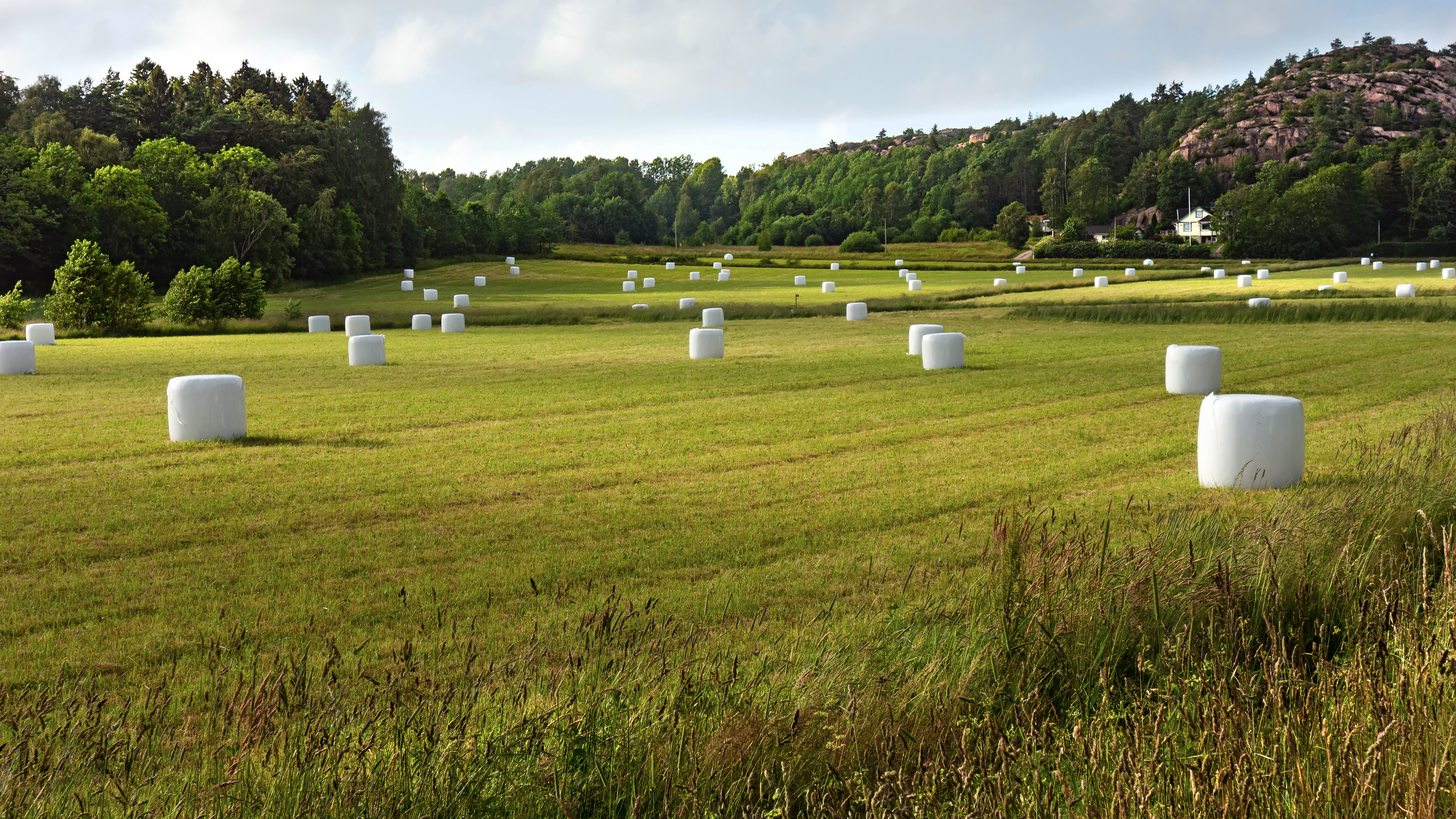 Field with white silage bales in Övre Tuntorp, Brastad, Lysekil Municipality, Sweden.